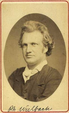 Danish art historian Philip Weilbach (1834-1900), founder of Weilbachs Kunstnerleksikon